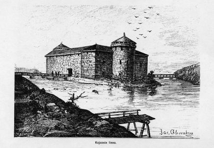 Lithography showing Kajaneborg before 1716, drawn by Johan Jacob Ahrenberg